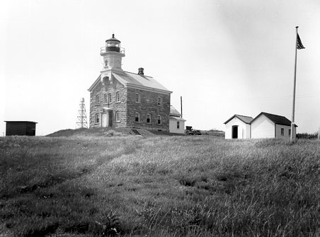 This images illustrates the Plum Island Light, also known as Plum Gut Light.